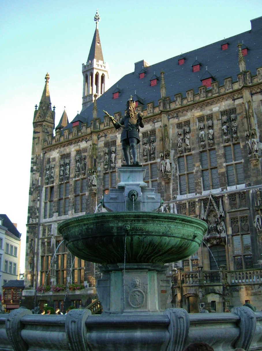 The Charles Fountain on the market in Aachen near the Aachen City Hall